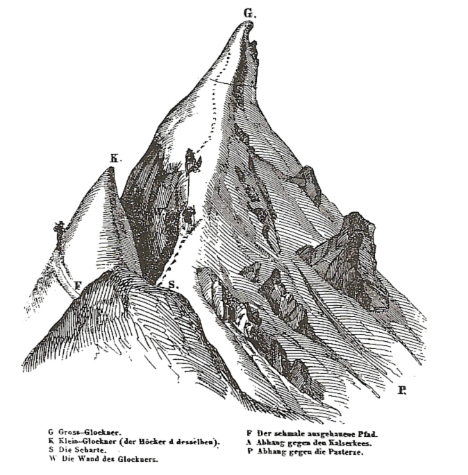 Climbing Großglockner